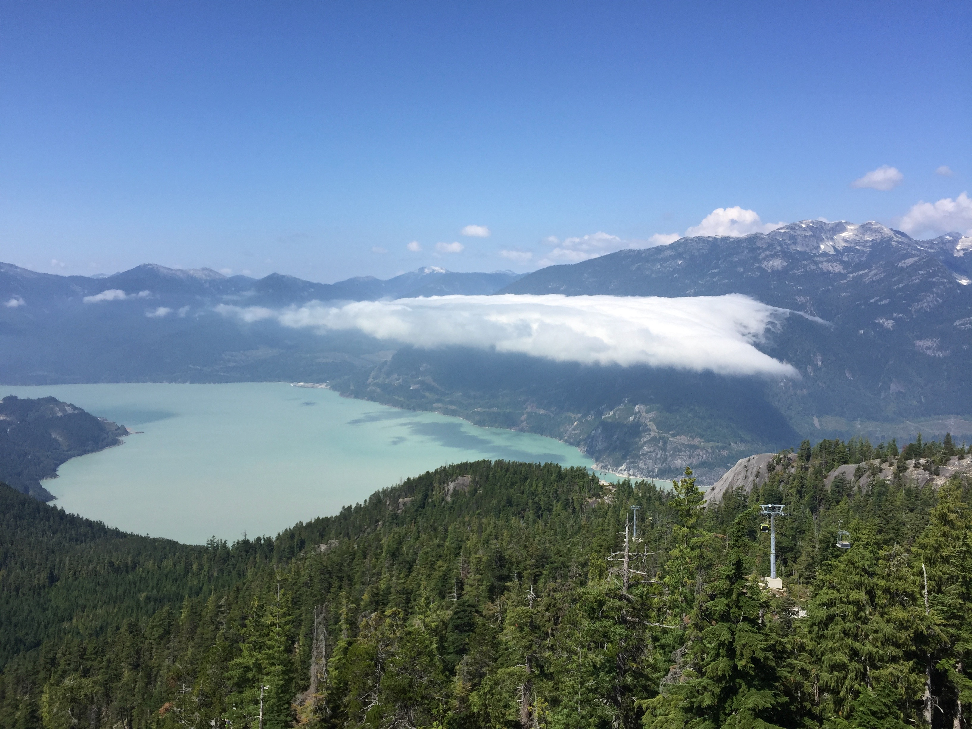 View of Howe Sound from Sky Pilot Mountain (Sea to Sky Gondola), Squamish, British Columbia, Canada.